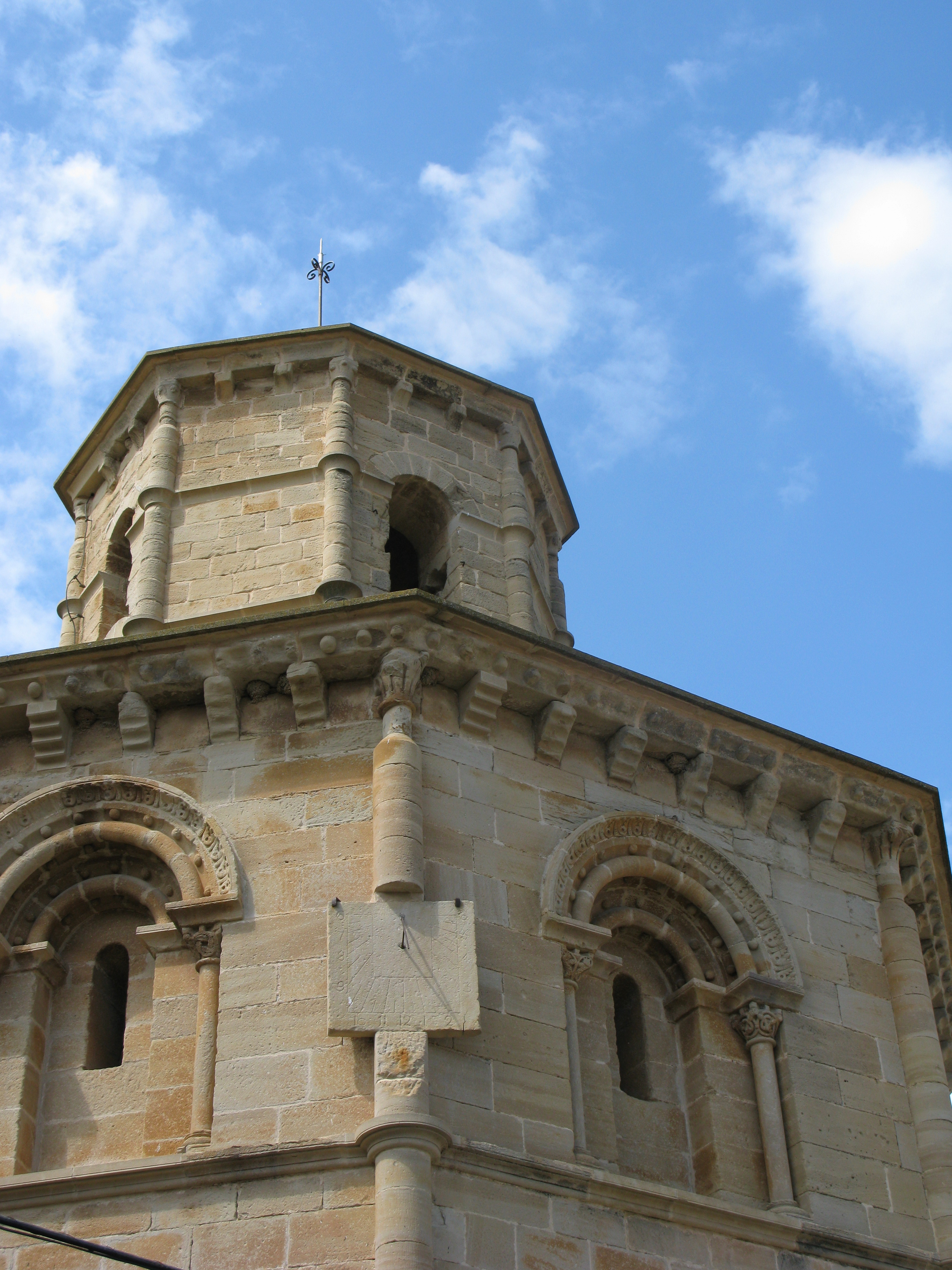 part of church santo sepulcro (holy grave) in torres del rio